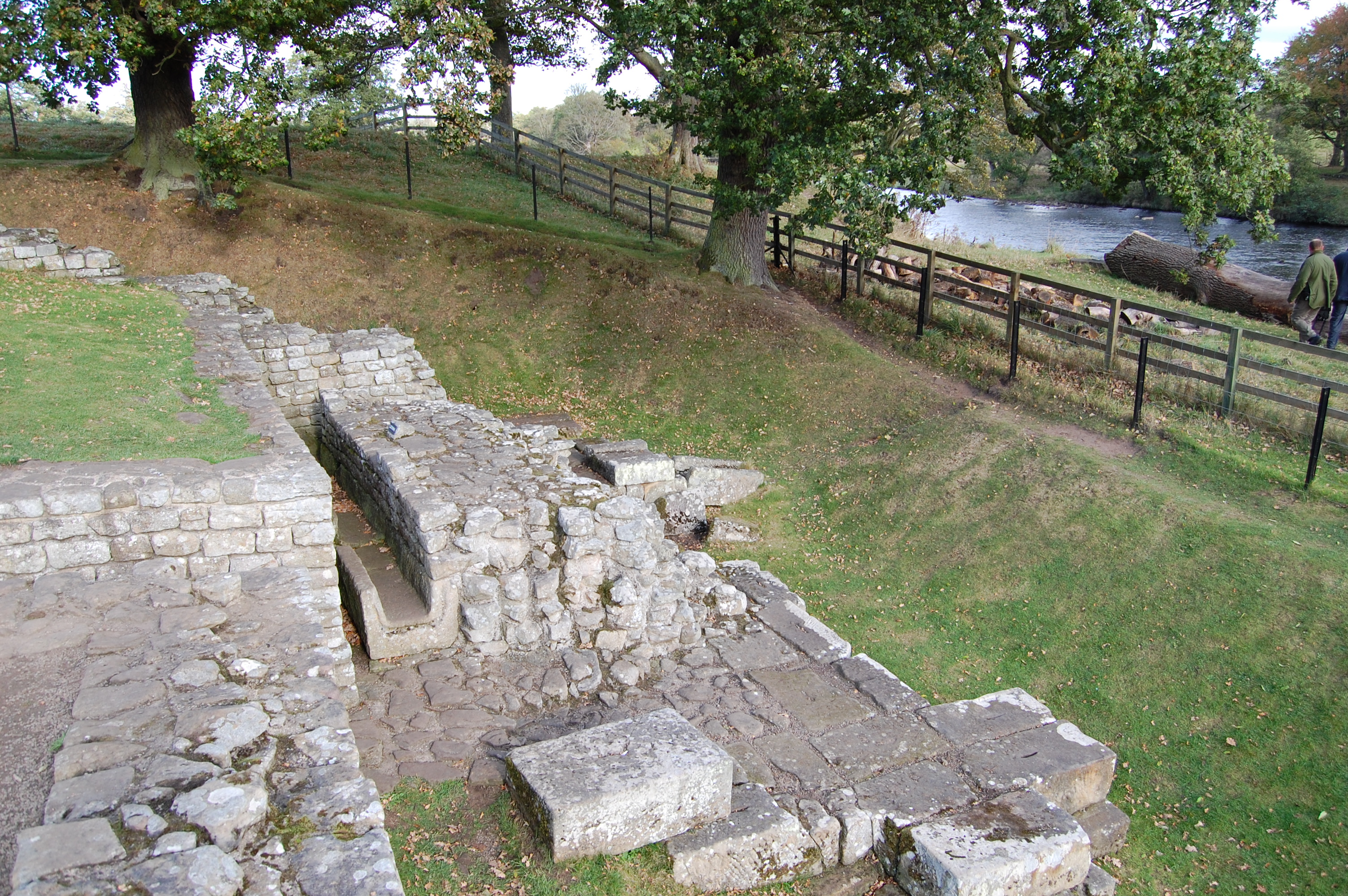 Ruins of Bath house at Chesters Roman Fort, along Hadrian's Wall.